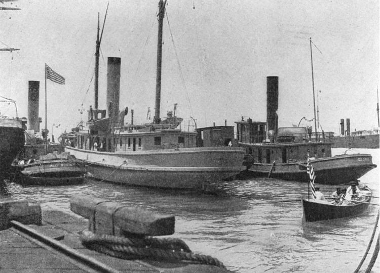 Sioux, Algonquin and Leyden in port, circa April 1898. Halftone photo, published in "War in Cuba, 1898." Note sailors rowing a small boat in right foreground. US Navy photo # NH 85645 from the collections of the US Naval Historical Center, Courtesy of Alfred Cellier, 1977. Original caption: “Photo # NH 85645 Tugs Algonquin, Leyden & Sioux”